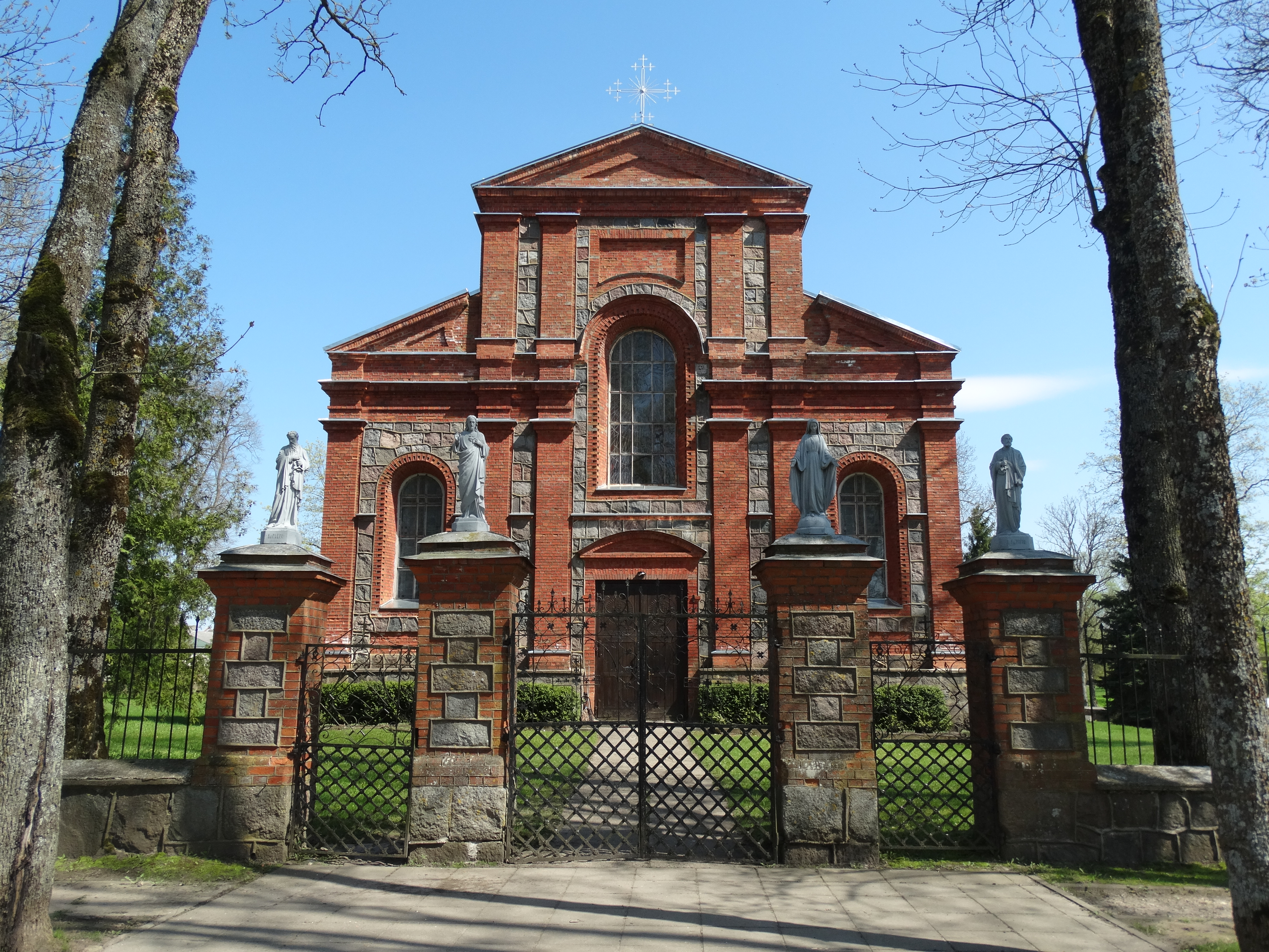 Catholic church, Gelvonai, Širvintos District, Lithuania